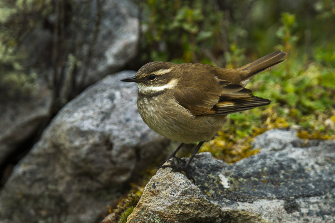 Bar-winged Cincloides - South-Ecuador_S4E3112